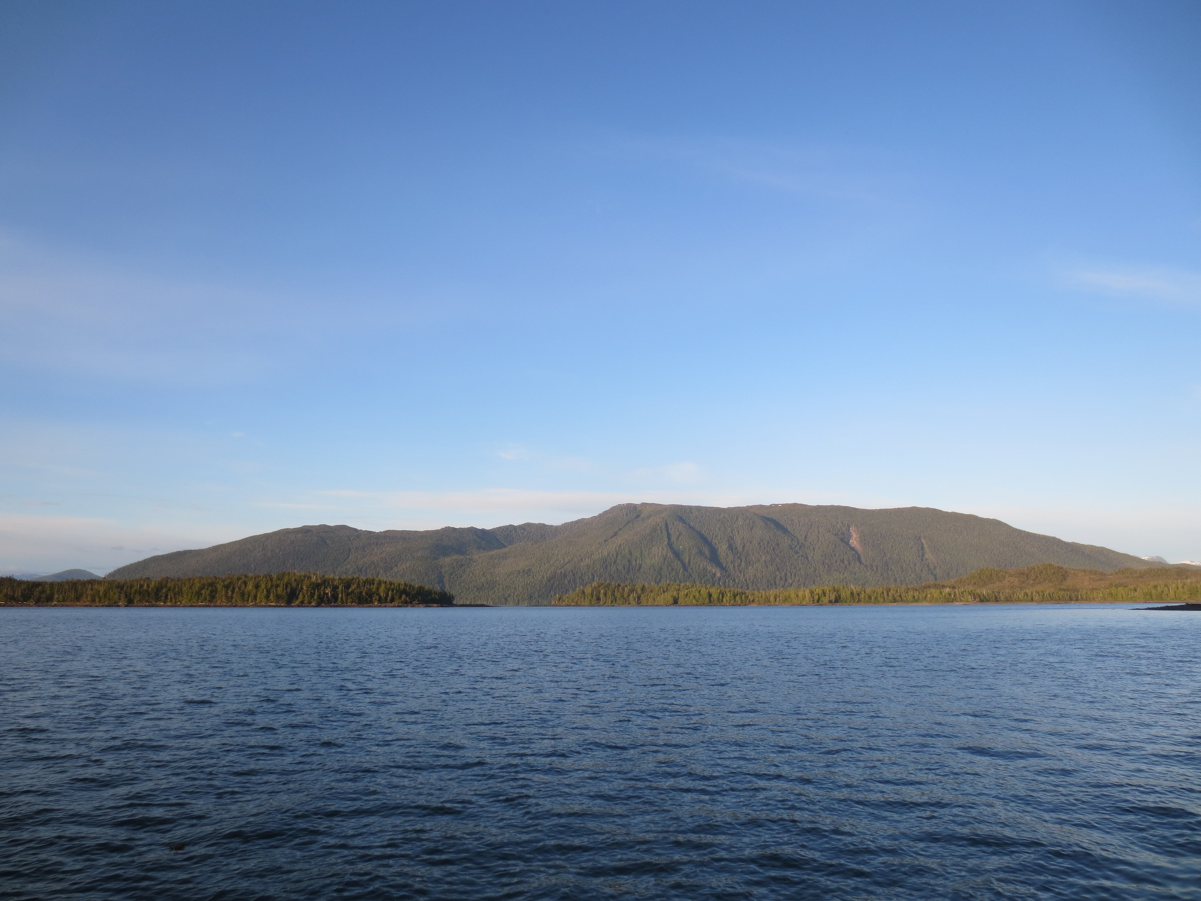 Western side of Kennedy Island, British Columbia, Canada, as seen from Porcher Island, Elliot Island in foreground left, Lewis Island in foreground right